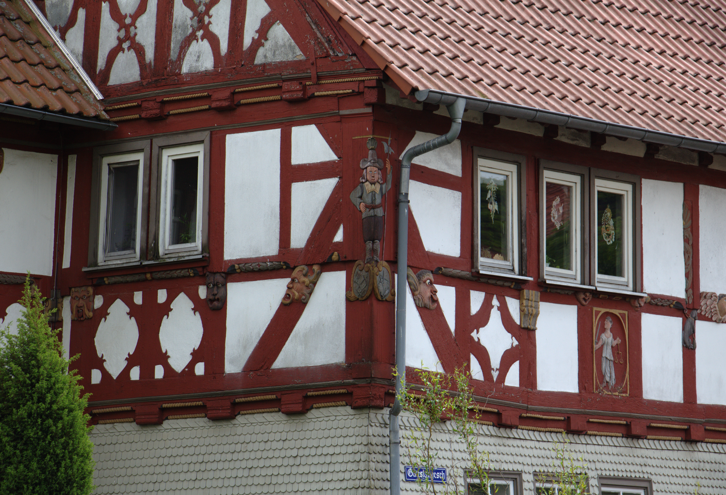 Half-timbered building (wooden carvings - Schreckköpfe) in Crainfeld, Kreuzstrasse 1, Grebenhain, Hesse, Germany